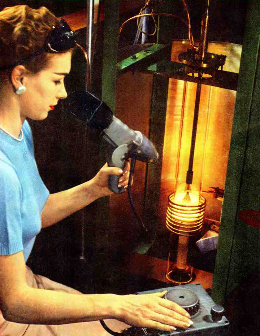 A silicon crystal being grown by the Czochralski process at the Raytheon Corp. semiconductor plant in Newton, Massachusetts, USA, in 1956 for use in the first silicon transistors. The transistor was invented in 1946, and the Czochralski process was first used to grow silicon crystals to make the first silicon transistors at Bell Labs in 1953, so this is one of the earliest silicon crystal production plants. The induction heating coil visible around the crucible carries a radio frequency current, and the heat induced melts the pure silicon in the crucible at a temperature of 2650°F. A seed crystal of solid silicon is attached to the rod and is lowered into the tube to touch the surface of the melted silicon. By carefully controlling the temperature distribution using the induction heater, the melted silicon is induced to crystallize on the seed, adding to the crystal. The seed is slowly pulled up from the melt, and the silicon freezes onto the end, creating a solid rod of monocrystal silicon. Here the process has just begun, and the tapered end of the crystal is visible just below the rod. In this early device the silicon crystal was only 1 inch wide. The woman is measuring the temperature of the melt with an optical pyrometer. This device has a filament attached to a calibrated current source inside the viewing tube, which appears silhouetted in front of the hot silicon. The technician turns up the current until the luminous filament just disappears against the background of the glowing silicon. This means the filament and the silicon are at the same temperature. The current knob (bottom) is calibrated in temperature, so she can read the temperature of the silicon off the knob. Alterations to image: Cropped out portions of magazine cover containing text, straightened, removed obvious dirt and damage.